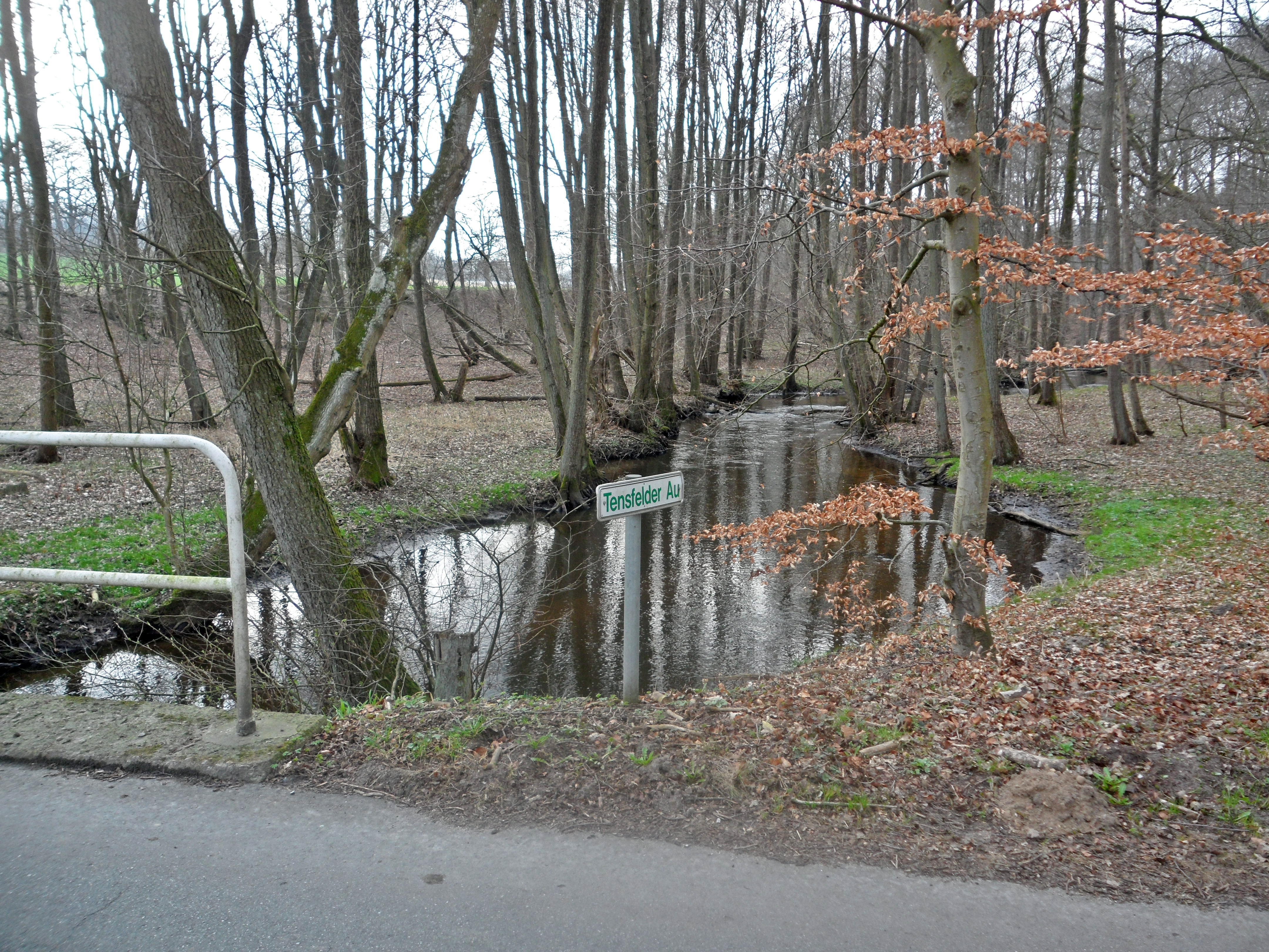 Tensfelder Au with bridge and sign close to Nehmten